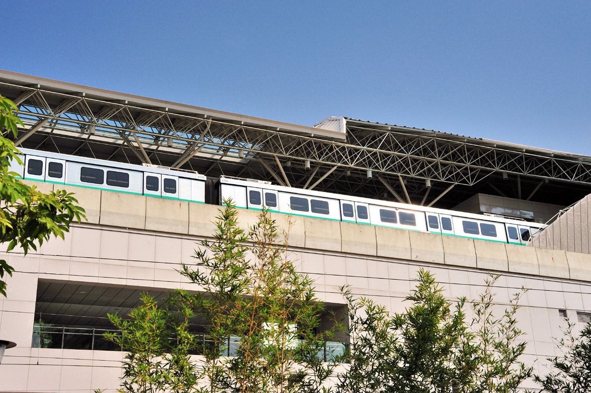 CiaoTou Station is a MRT station of KRTC co-sharing with TRA Western main rail line. It locates within the boundary of CiaoTou Township, KaoHsiung County. This photo shows the MRT train stopping by the elevated platform of CiaoTou Station.